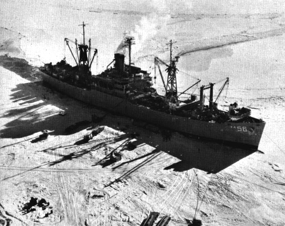 The U.S. Navy attack cargo ship USS Arneb (AKA-56) in Antarctica during "Deep Freeze '61". Arneb transported part of the PM-3A nuclear power plant during this cruise. Due to many malfunctions, the reactor was dismantled starting in 1972.